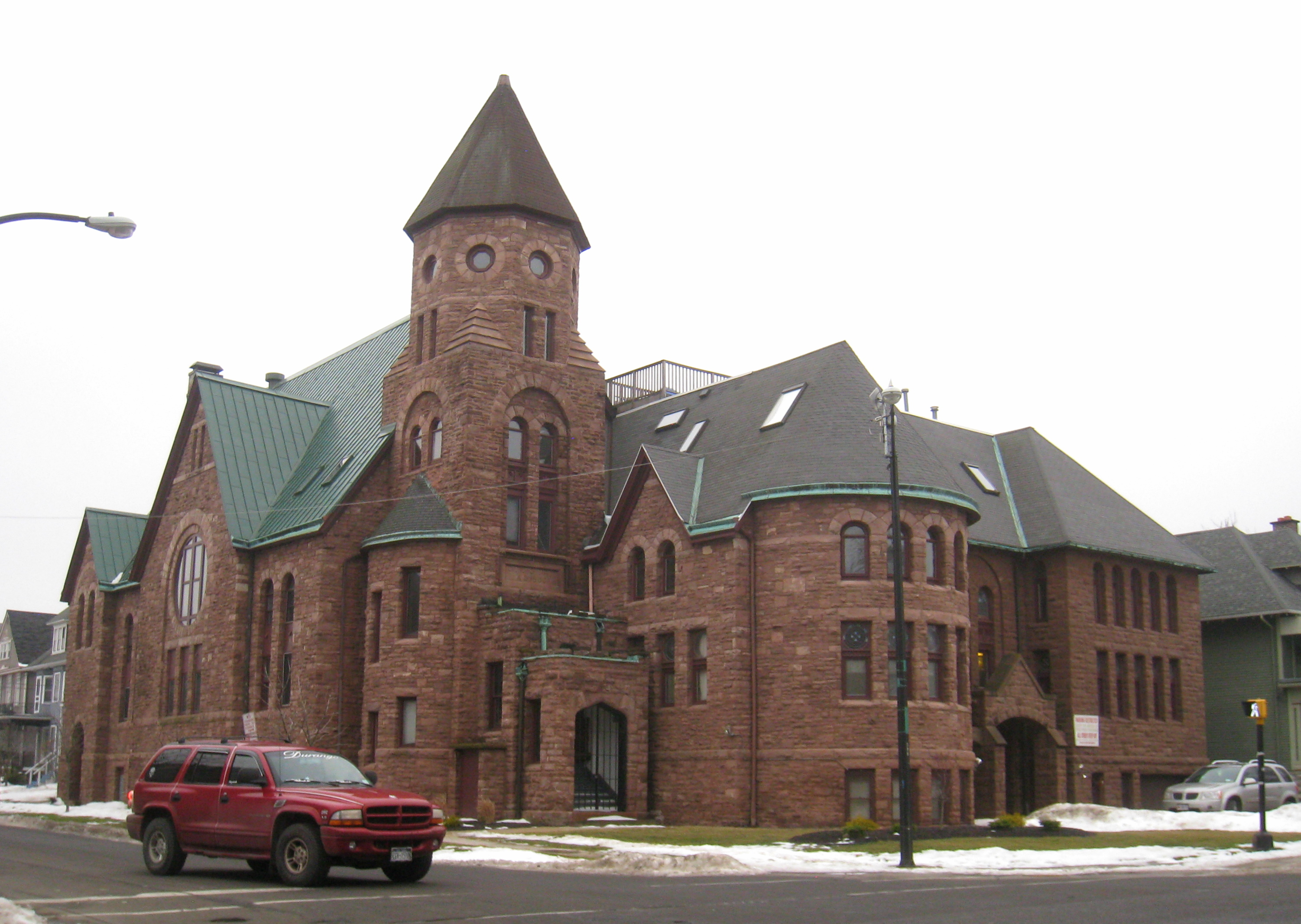 Former Richmond Avenue Church of Christ, corner of Richmond Avenue and Bryant Street, Buffalo, New York, USA. Architect Cyrus Kinne Porter (1828-1910).